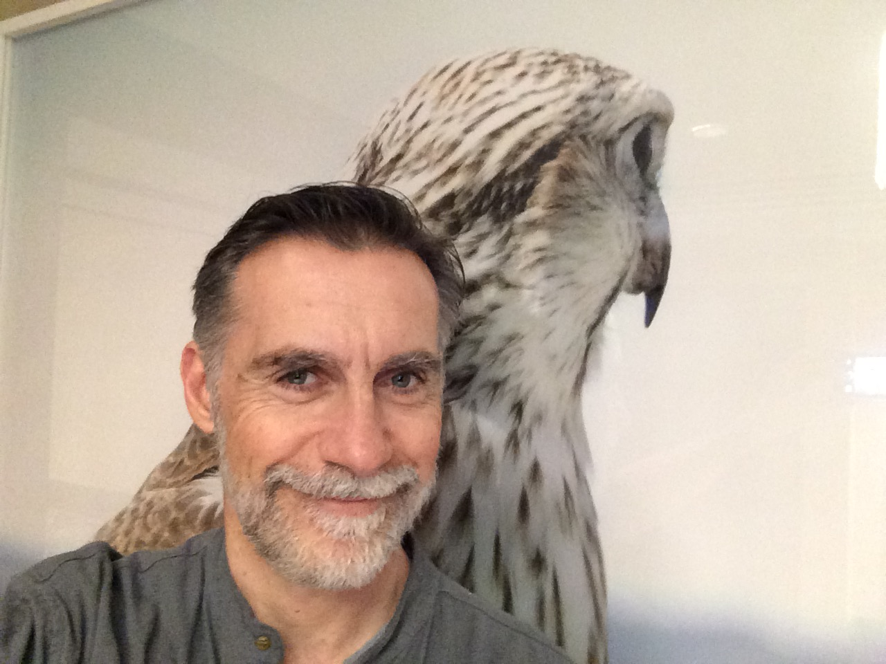 This is a photograph of writer Daniel Martin Eckhart